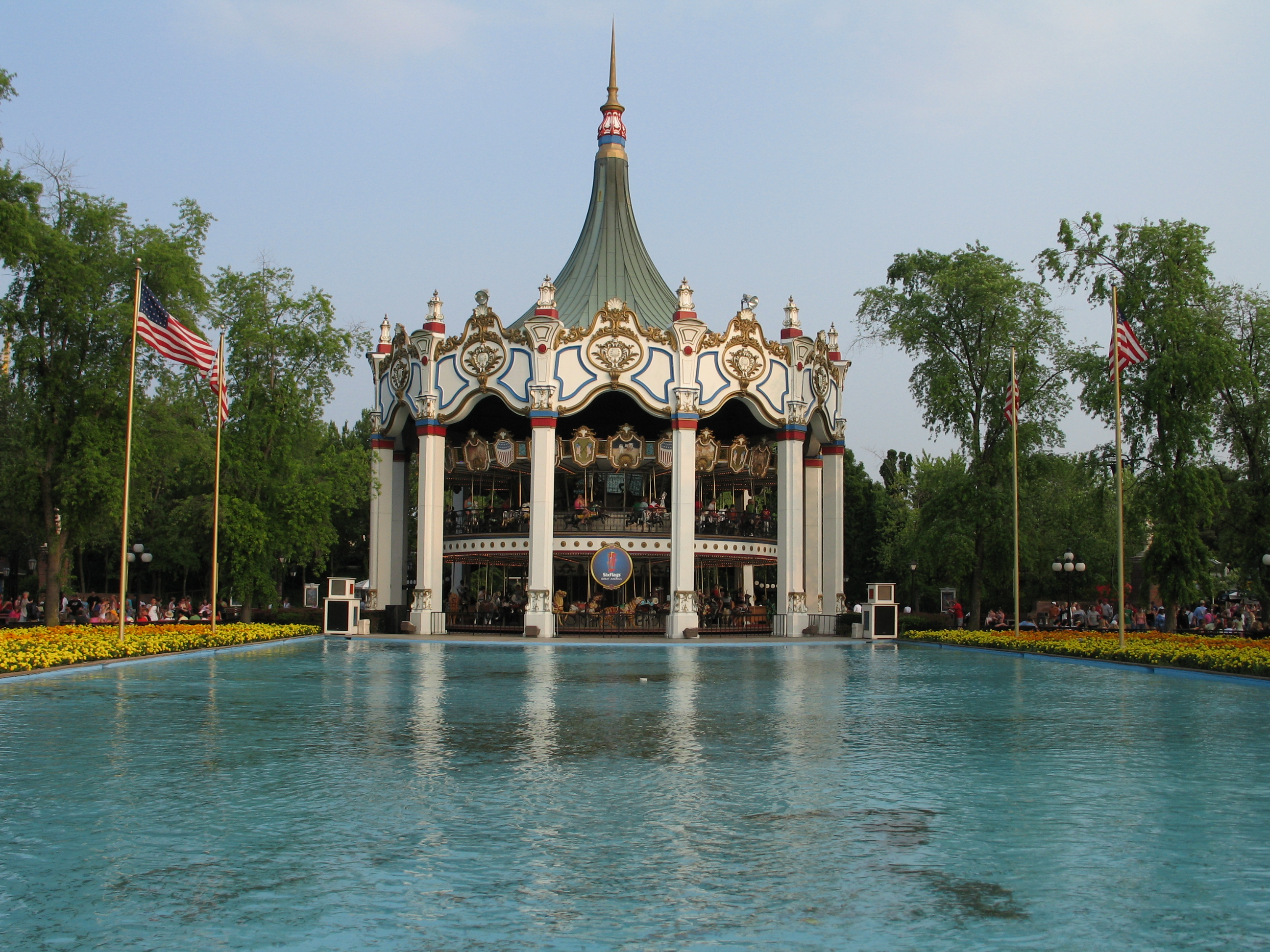 Columbia Carousel at Six Flags Great America.